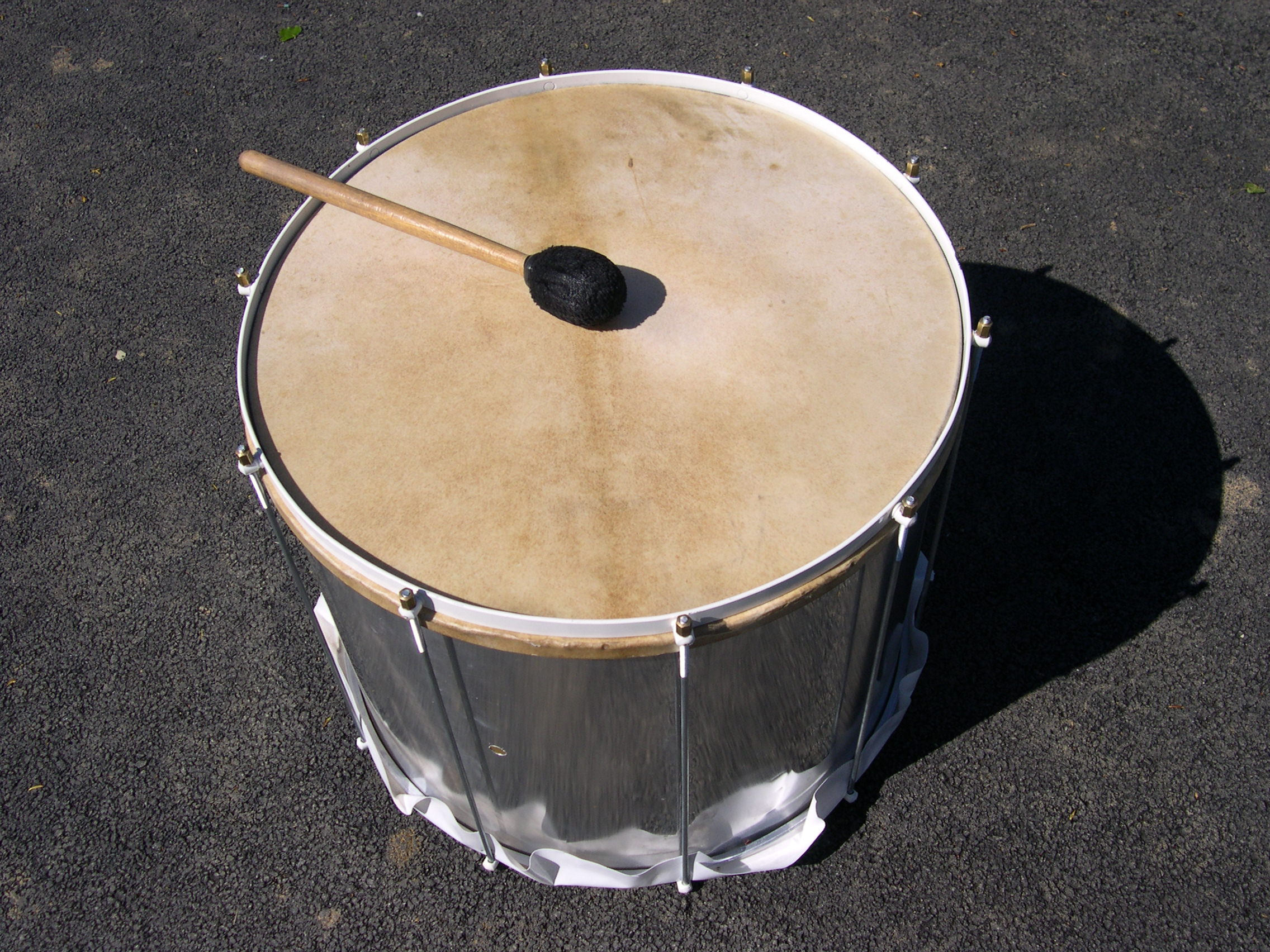 22" surdo with animal skin